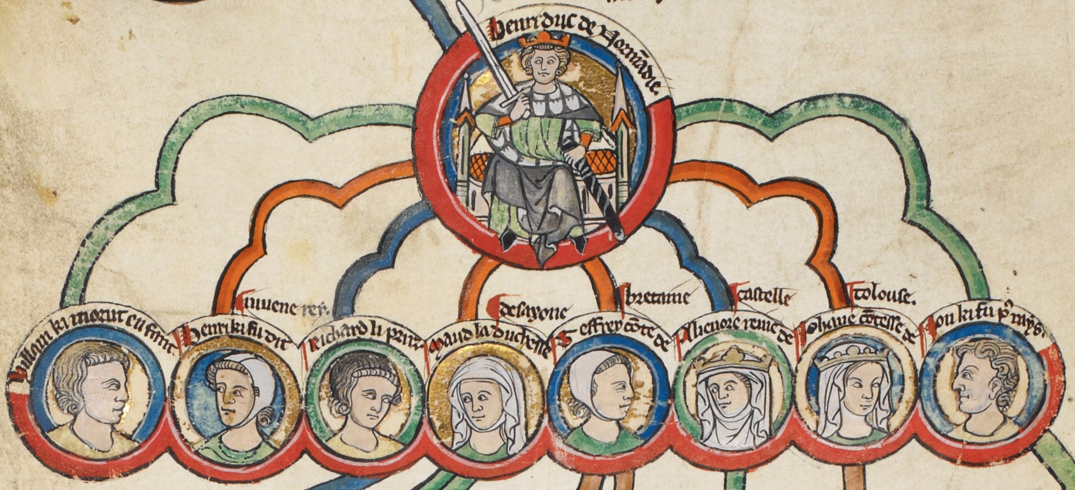 King Henry II of England and his children. (British Library, Royal 14 B VI) from left: William, Henry the young King, Richard Lionheart, Matilda, Geoffrey, Eleonor, Joan, John Lackland